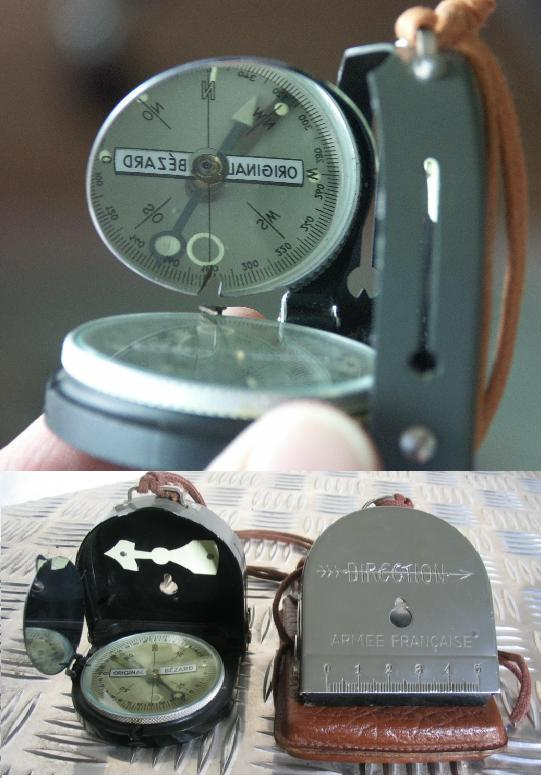 French military compass by Bézard.